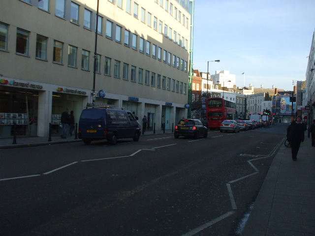 Fulham Broadway, SW6 In Fulham, this is the closest they have to a town centre - Fulham Broadway.